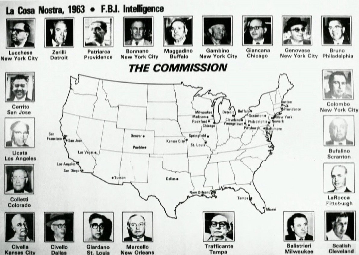 Federal Bureau of Investigations chart of American Mafia Bosses across the country in 1963.